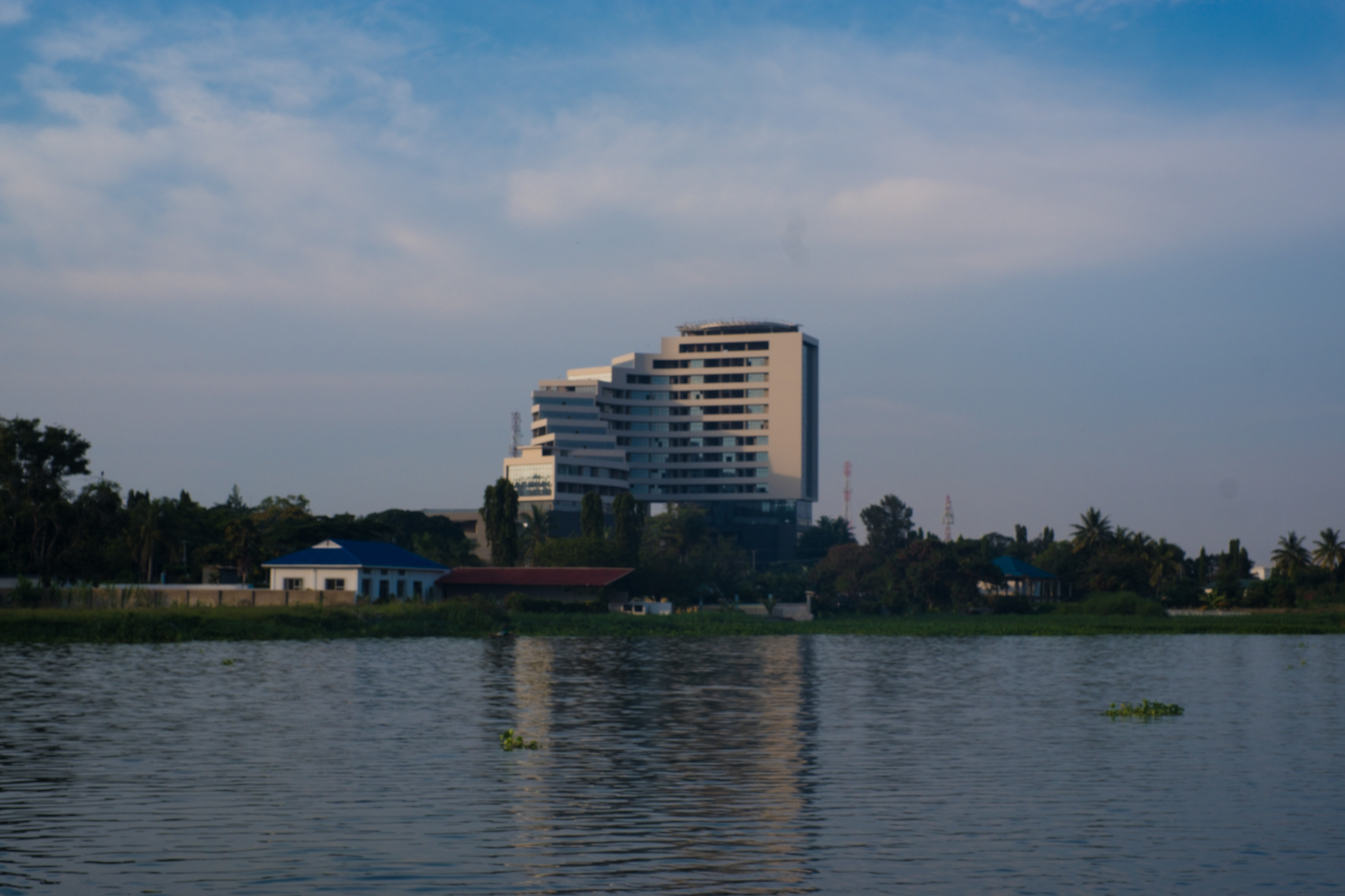 Growth of Flats can be a direct effect that has been facilitated by transportation, this is plays a major role in economic operations. This is an image with the theme "Africa on the Move or Transport" from: Tanzania